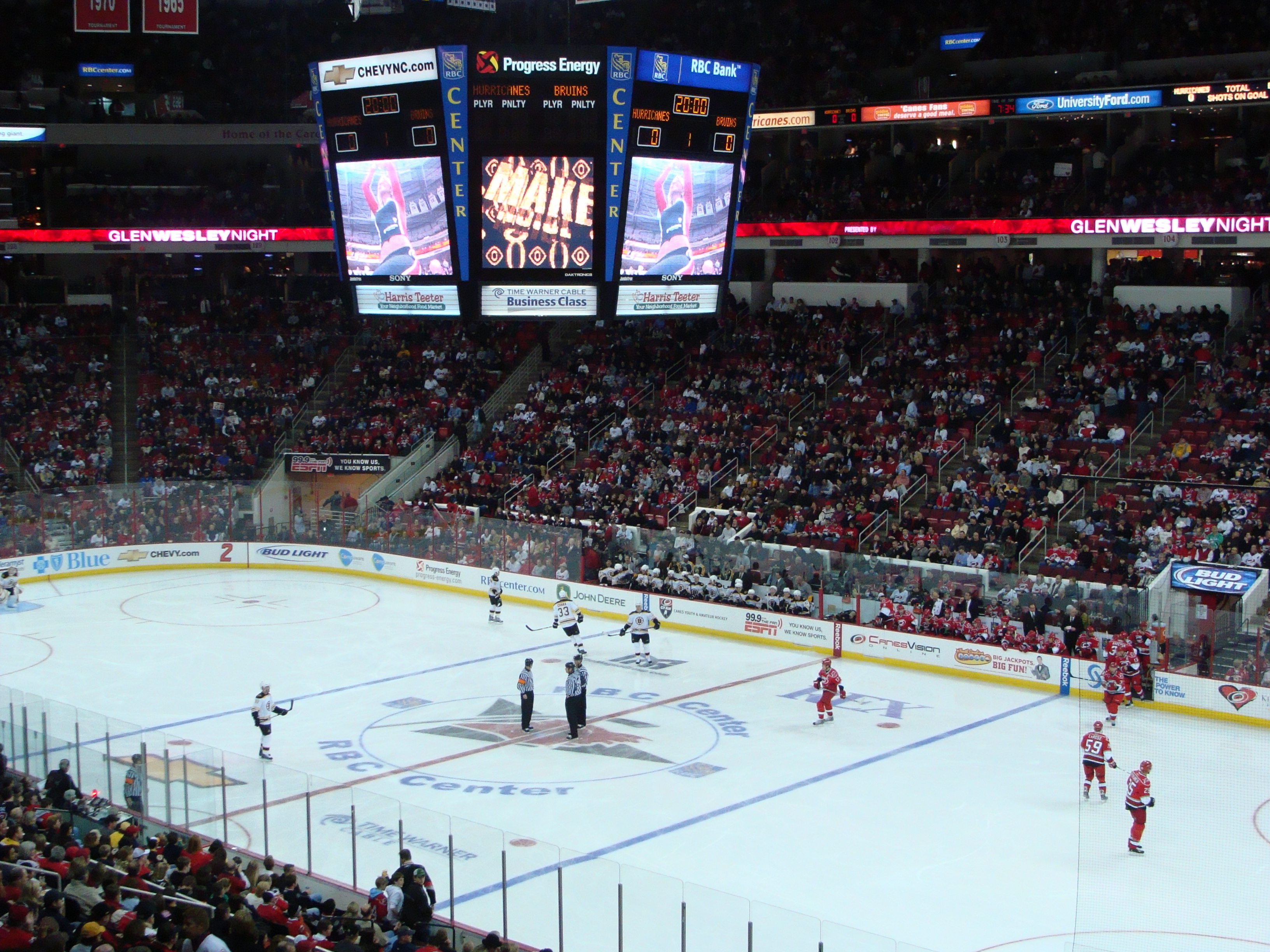 Inside the RBC Center during a Hurricanes home game.